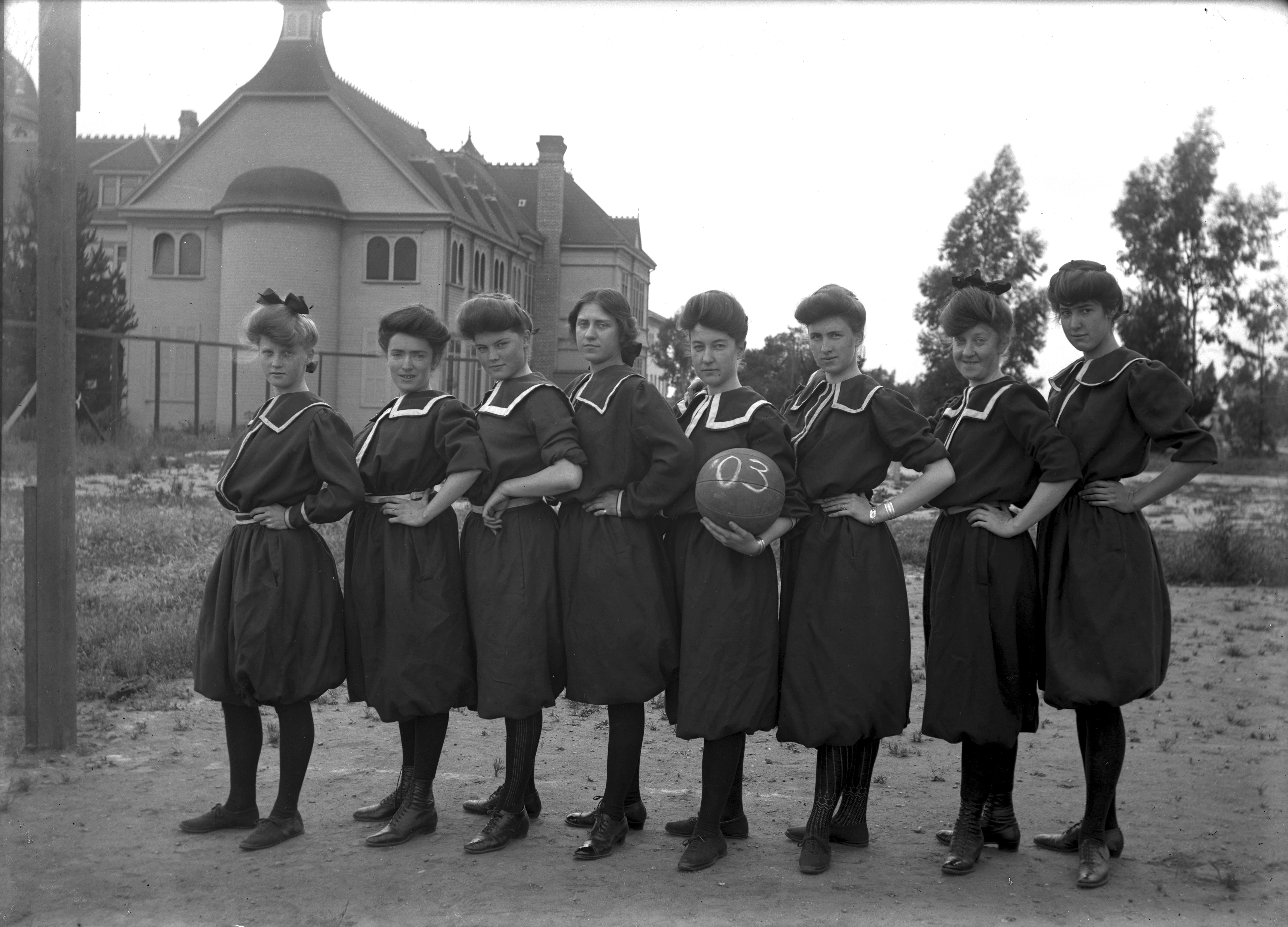 The members of the 1903 Pomona College women's basketball team pose for a photograph circa 1903, standing in a line outside of Holmes Hall wearing their uniforms. One student is holding a basketball with "'03" written on it.